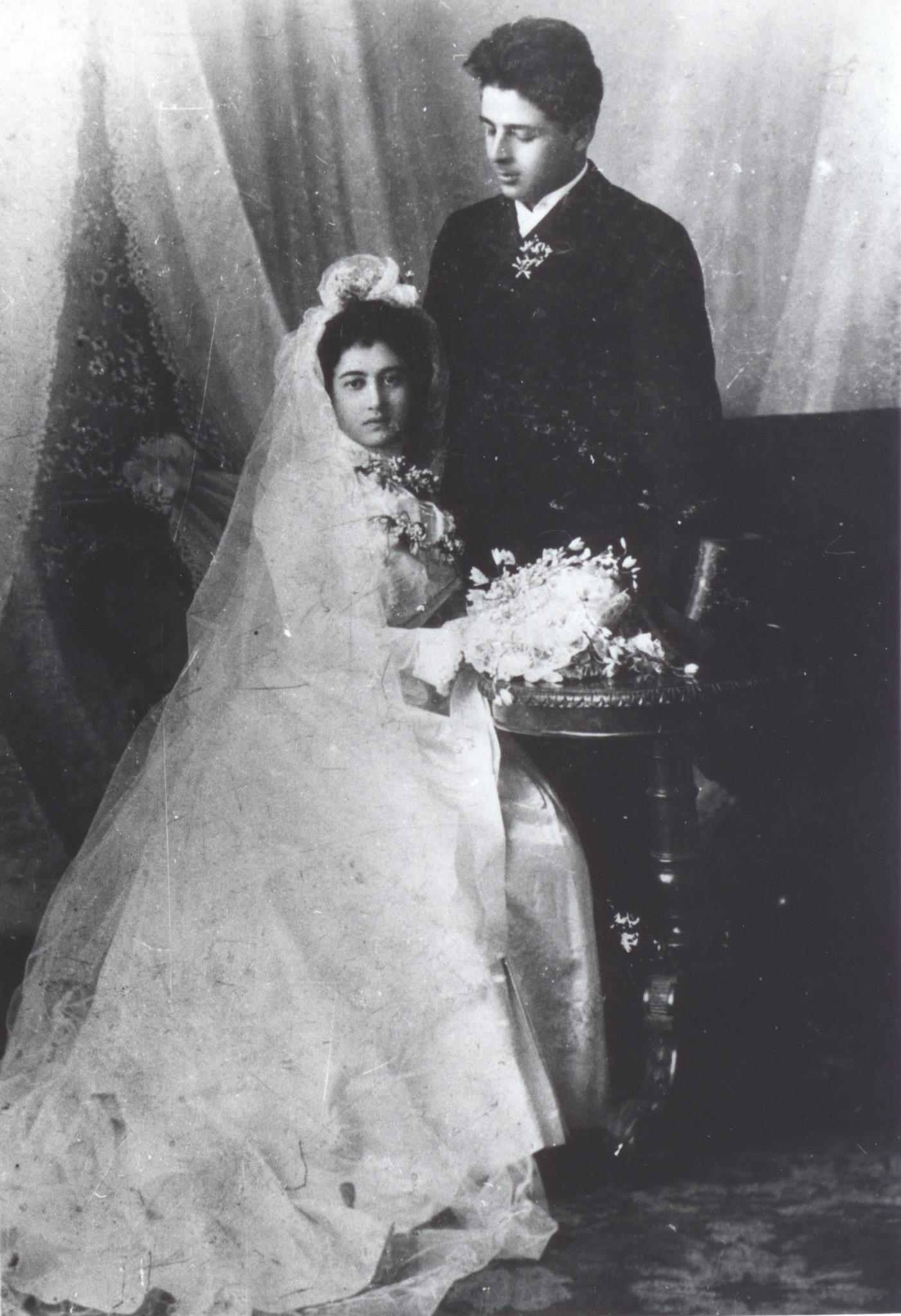 Wedding photography of Bulgarian theatre director Krastyo Sarafov and Donka Ivanova Gyuzeleva.